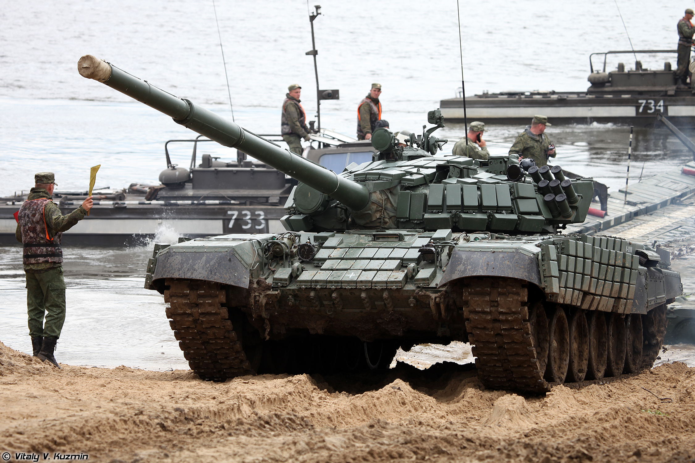 Выход Т-72Б1 на берег (Unloading of T-72B1 from the ferry)